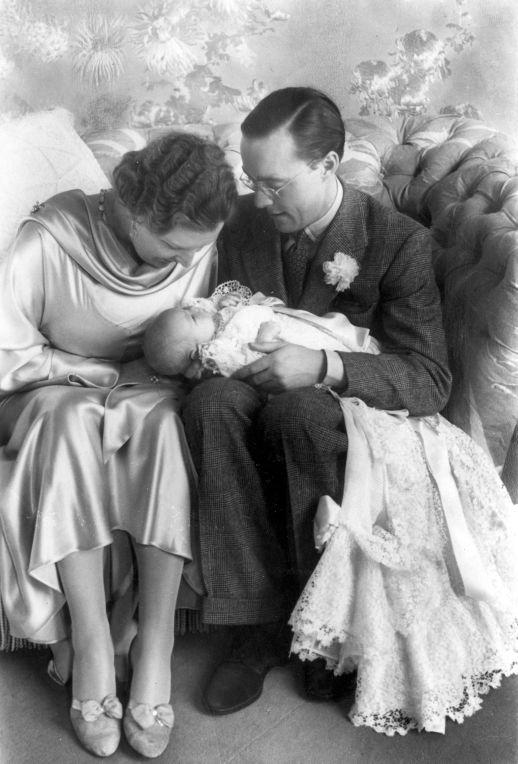 The Dutch crown princess Juliana and her husband prince Bernhard with their daughter princess Beatrix. Probably the first photograph of Beatrix together with her parents.